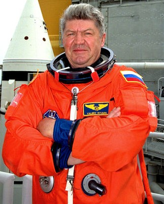 Valery Ryumin, russian astronaut, STS-91 crew.